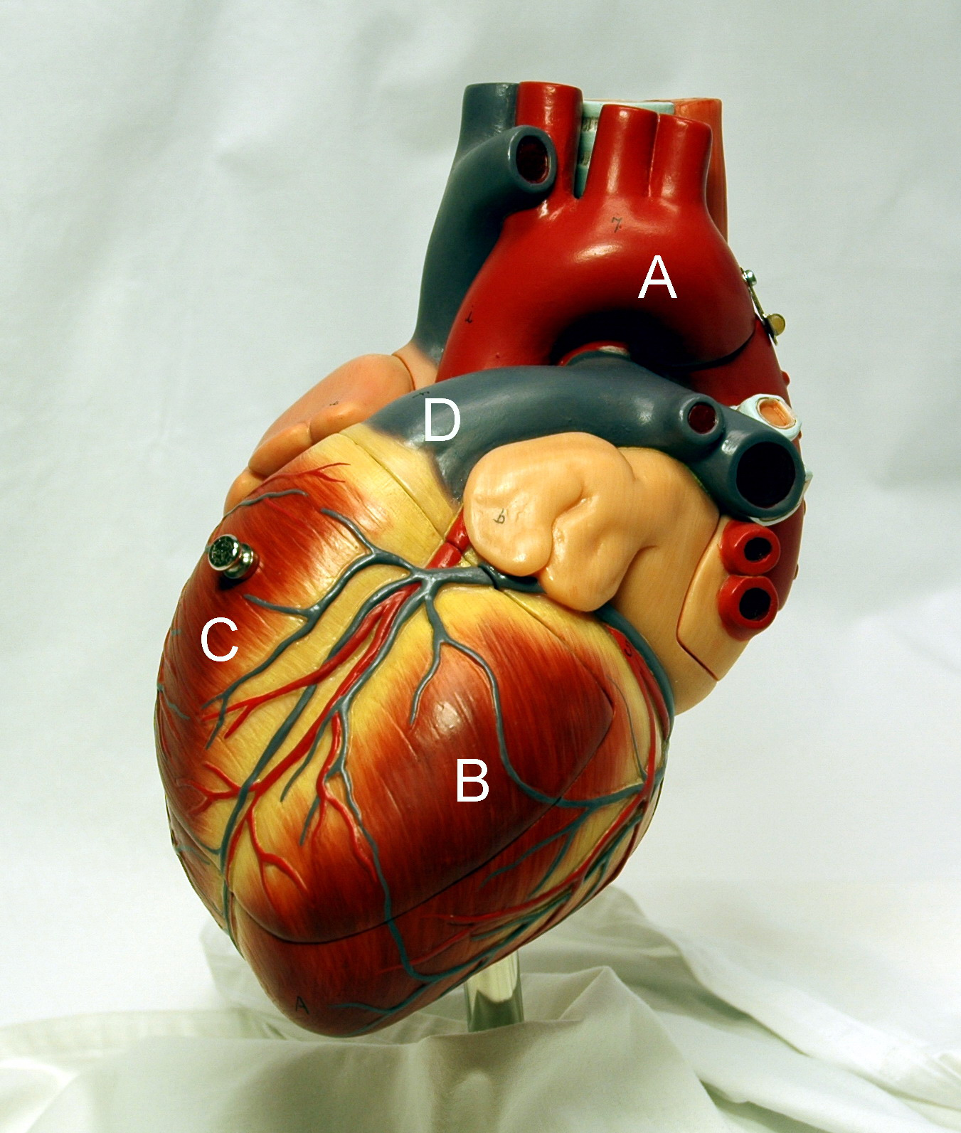 Photograph of a heart model, as viewed from the left side of the body. My own work. Legend: A: Aorta B: Left ventricle C: Right ventricle D:Pulmonary artery. The coronary artery Ramus interventricularis anterior can be seen in the groove (sulcus interventricularis) between the ventricles